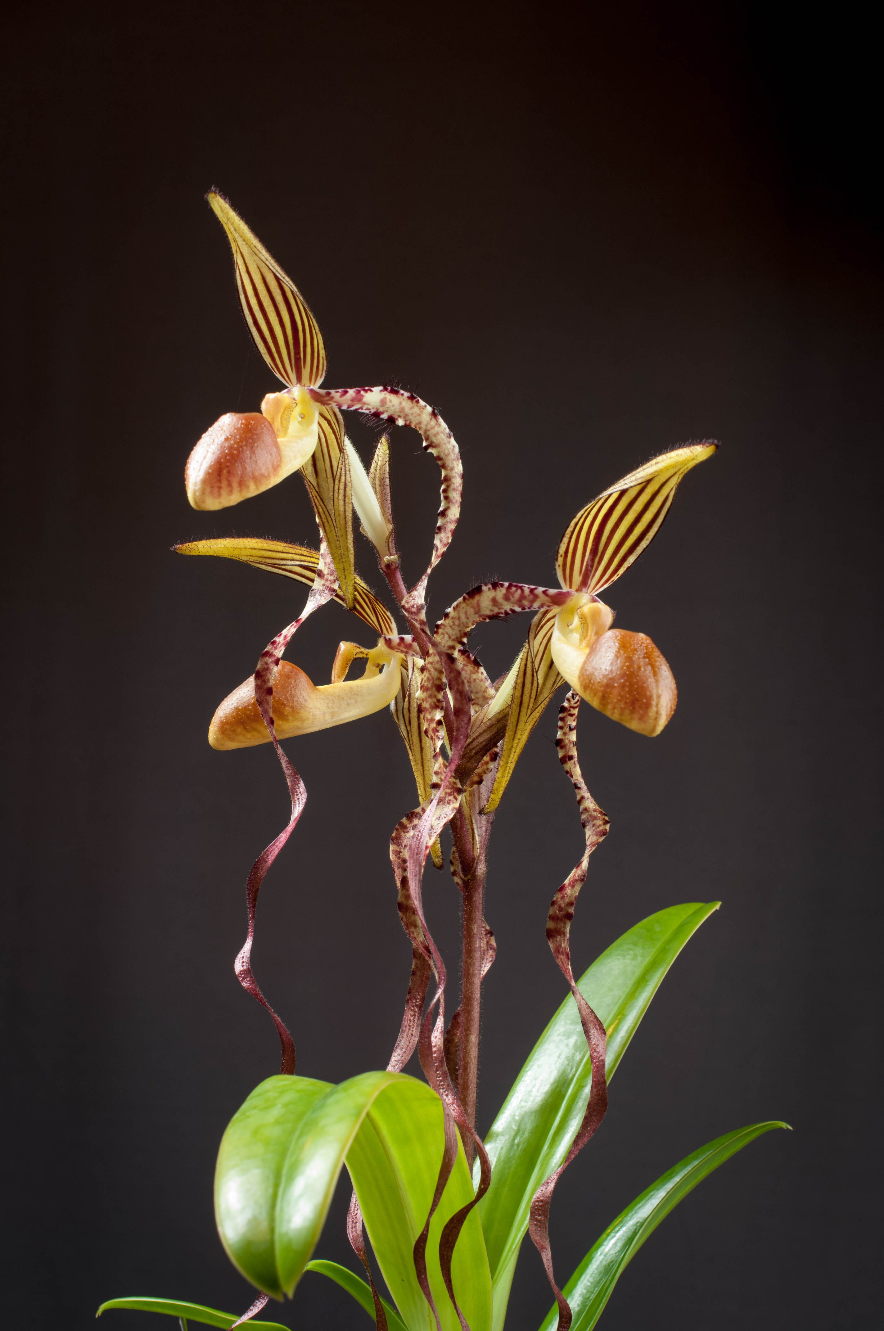 'Dark Beauty' x 'Newberry Tresses', 8017 from Carter & Holmes.